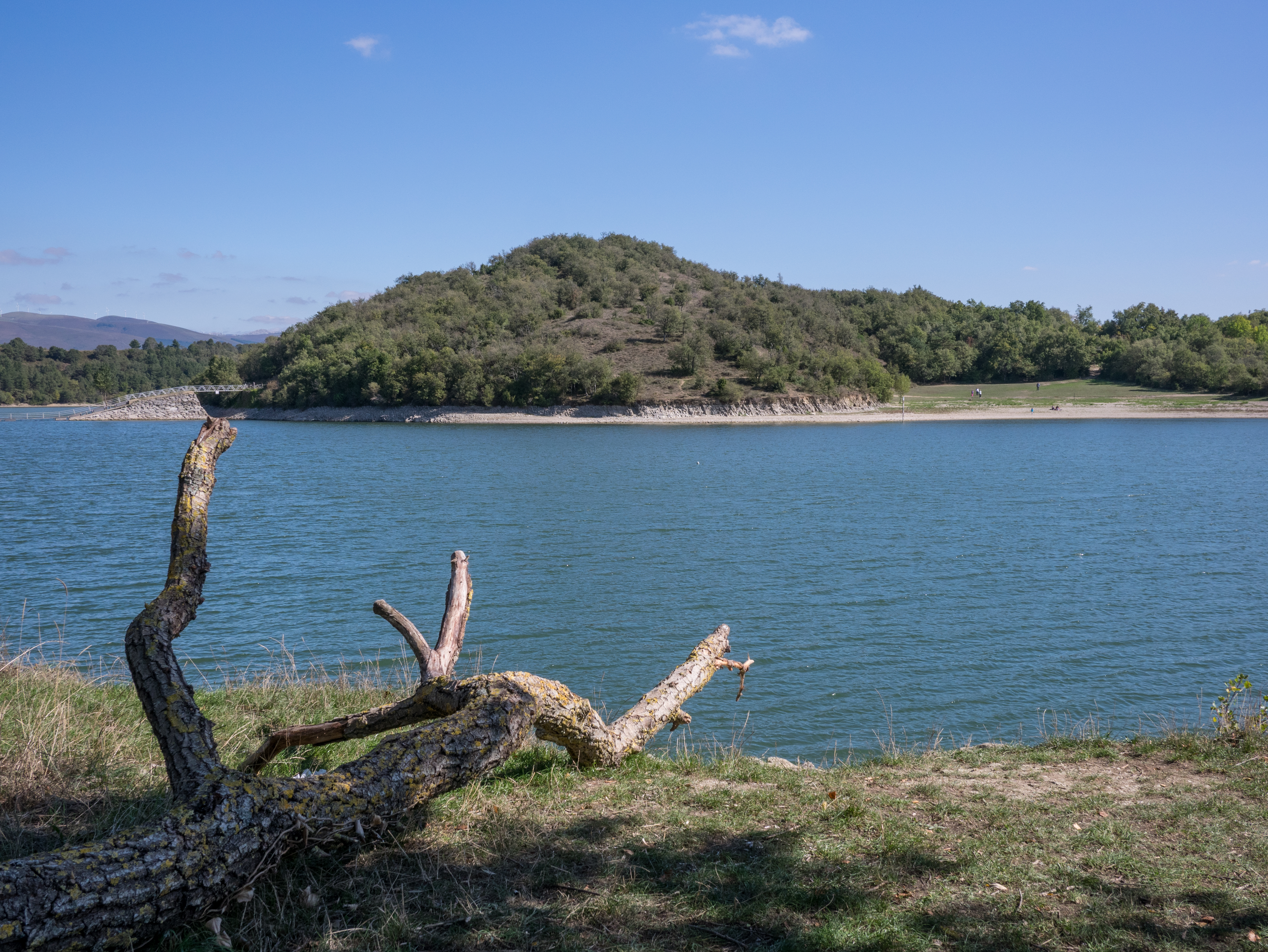 Vista de la playa de Garaio, Embalse de Ullíbarri-Gamboa. Álava, País Vasco, España